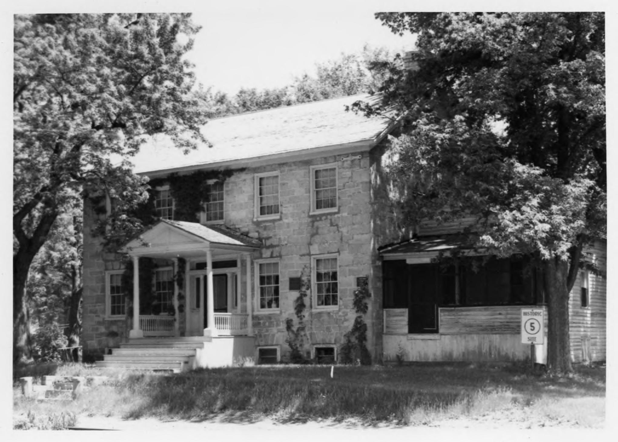 Brisbois House, Prairie du Chien (Crawford County, Wisconsin) cropped